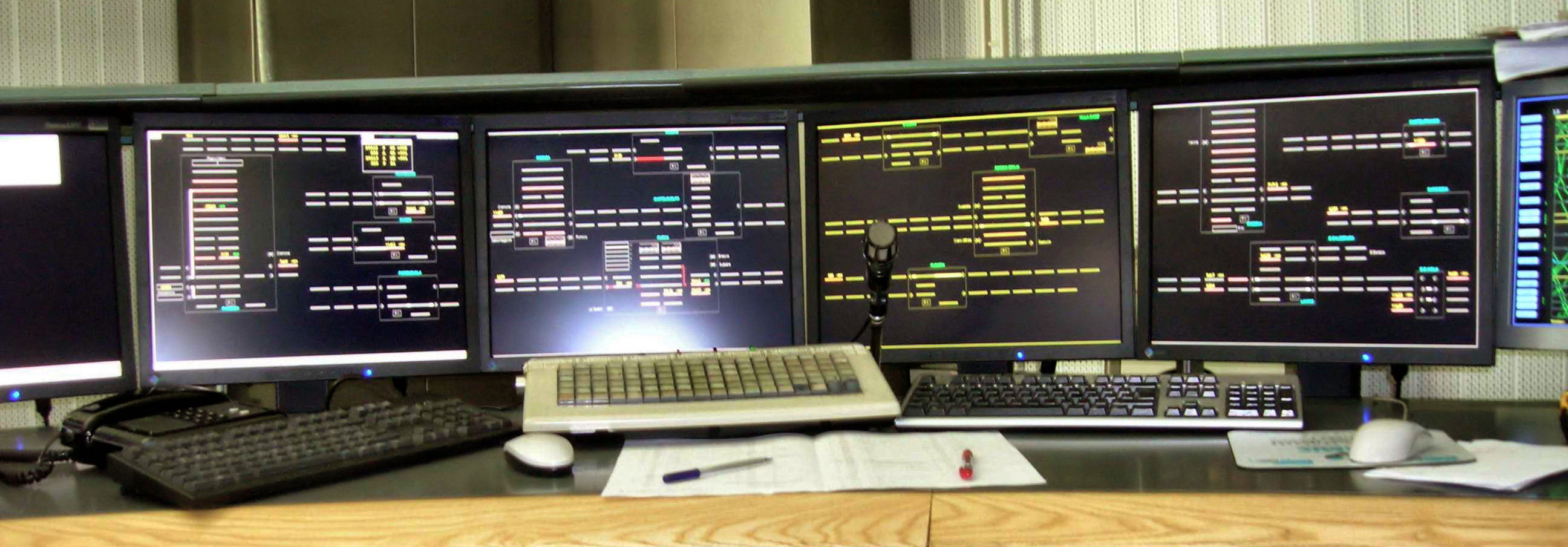 Monitor of despatcher's control panel. Line Piacenza-Bologna Italian Railways (FS)